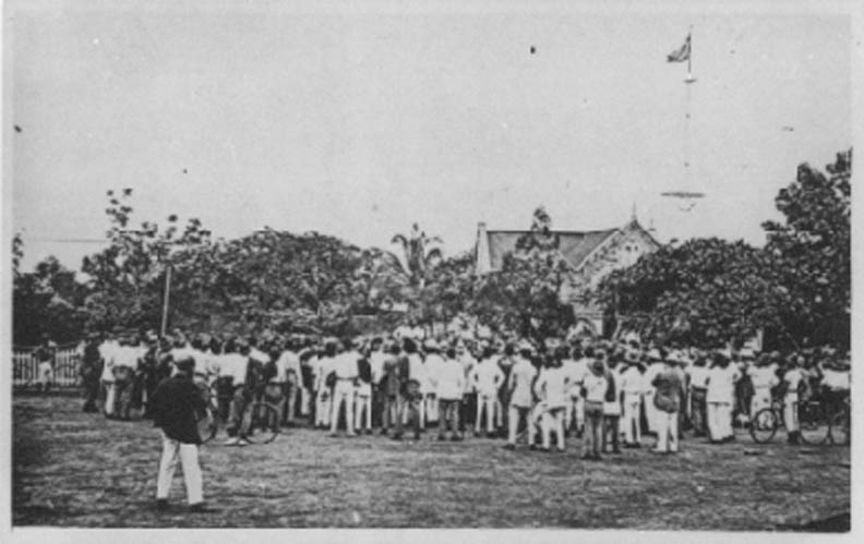 Creator unknown. Black and white photo of demonstrators arriving at Government House, Darwin on 17 December 1918.